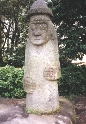 Dol hareubang at Tamna Mokseokwon, Jeju Island, South Korea.